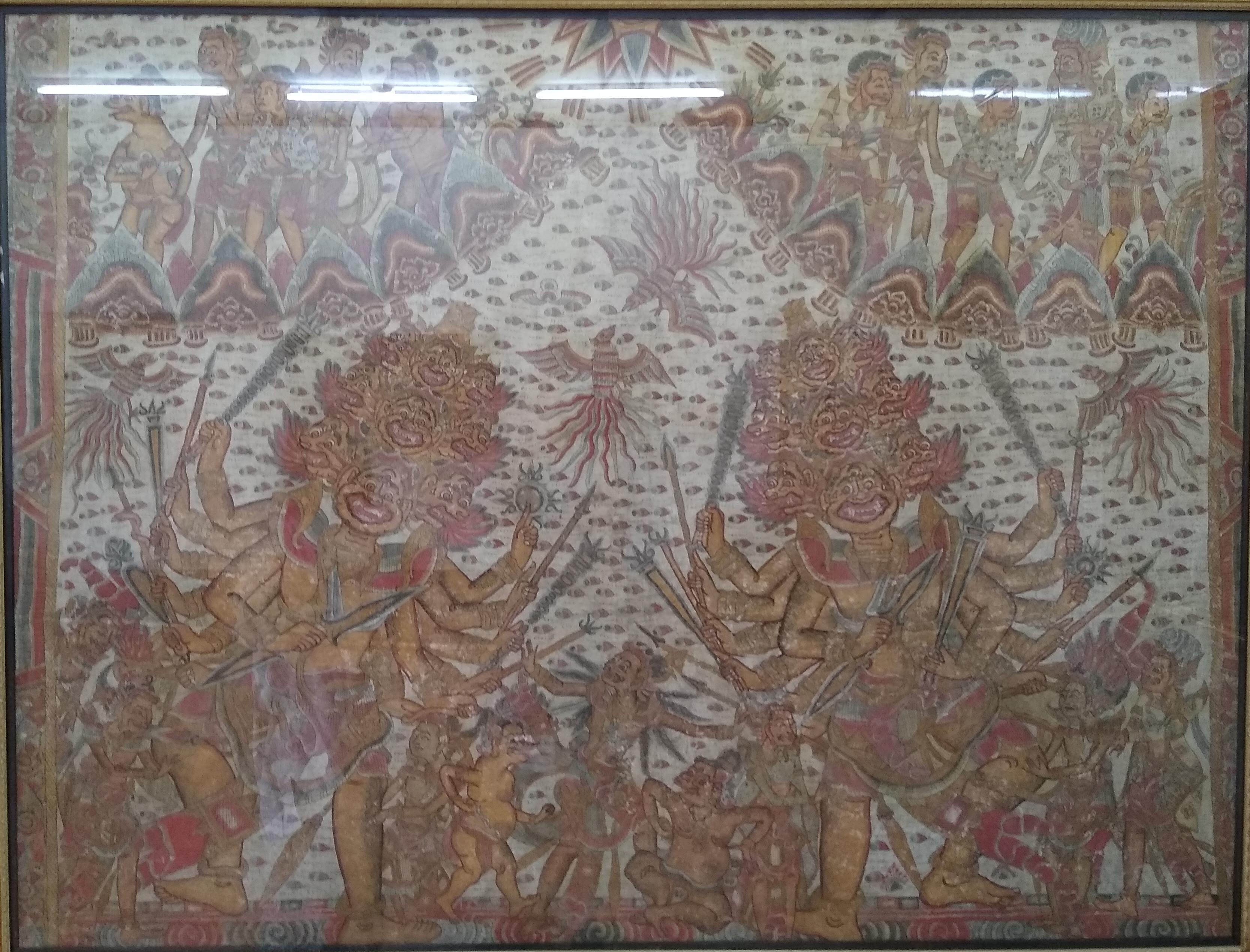 Demonic Transformation (Perubahan Kejam), a painting at the Neka Art Museum in Ubud, Bali. Late 19th century; mineral pigments and Chinese ink on cloth; 127 x 158 cm. Anonymous. Kamasan, Klungkung, Bali.